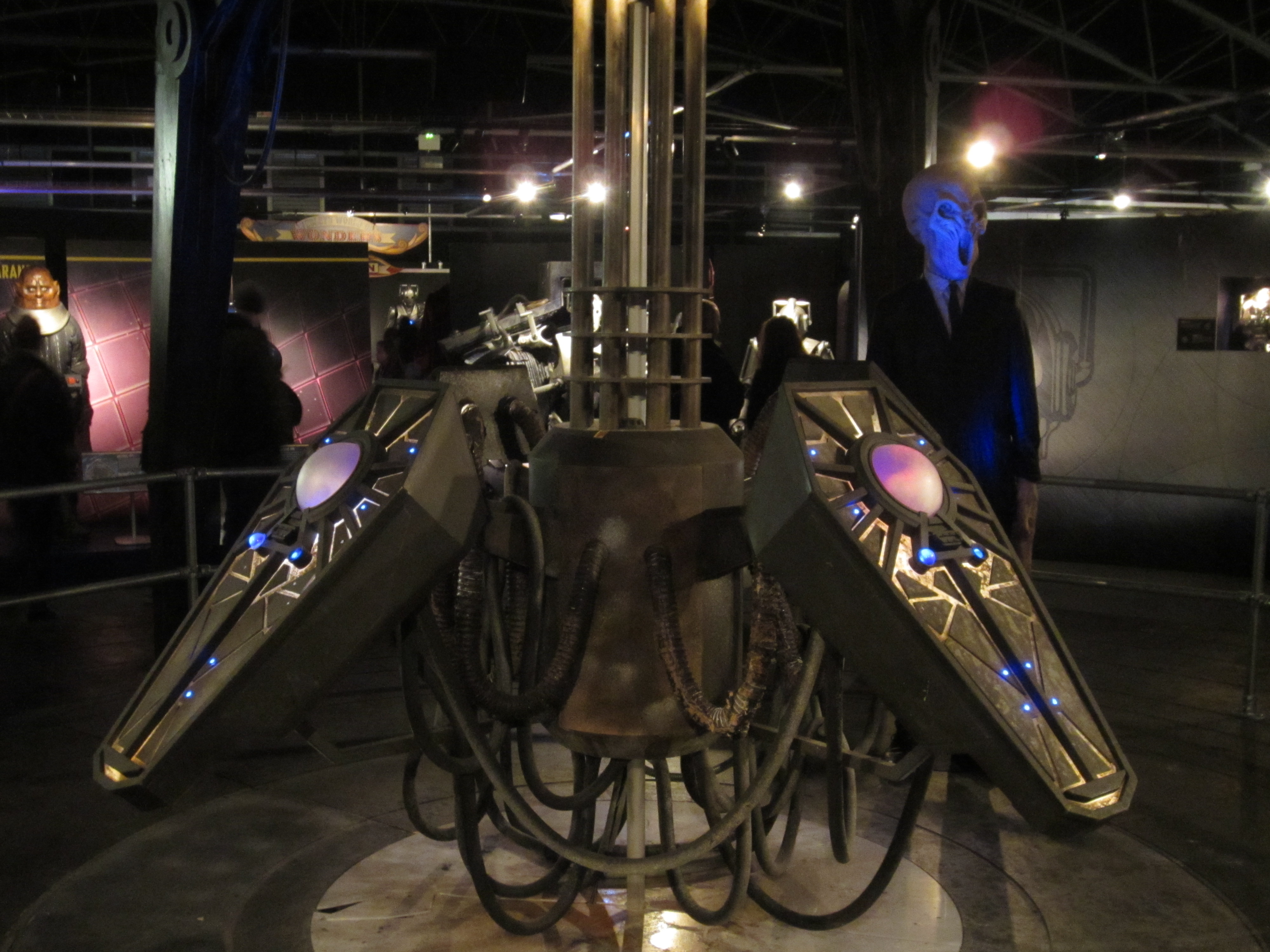 Costumes and prop from Doctor Who, displayed at the Doctor Who Experience in Cardiff.